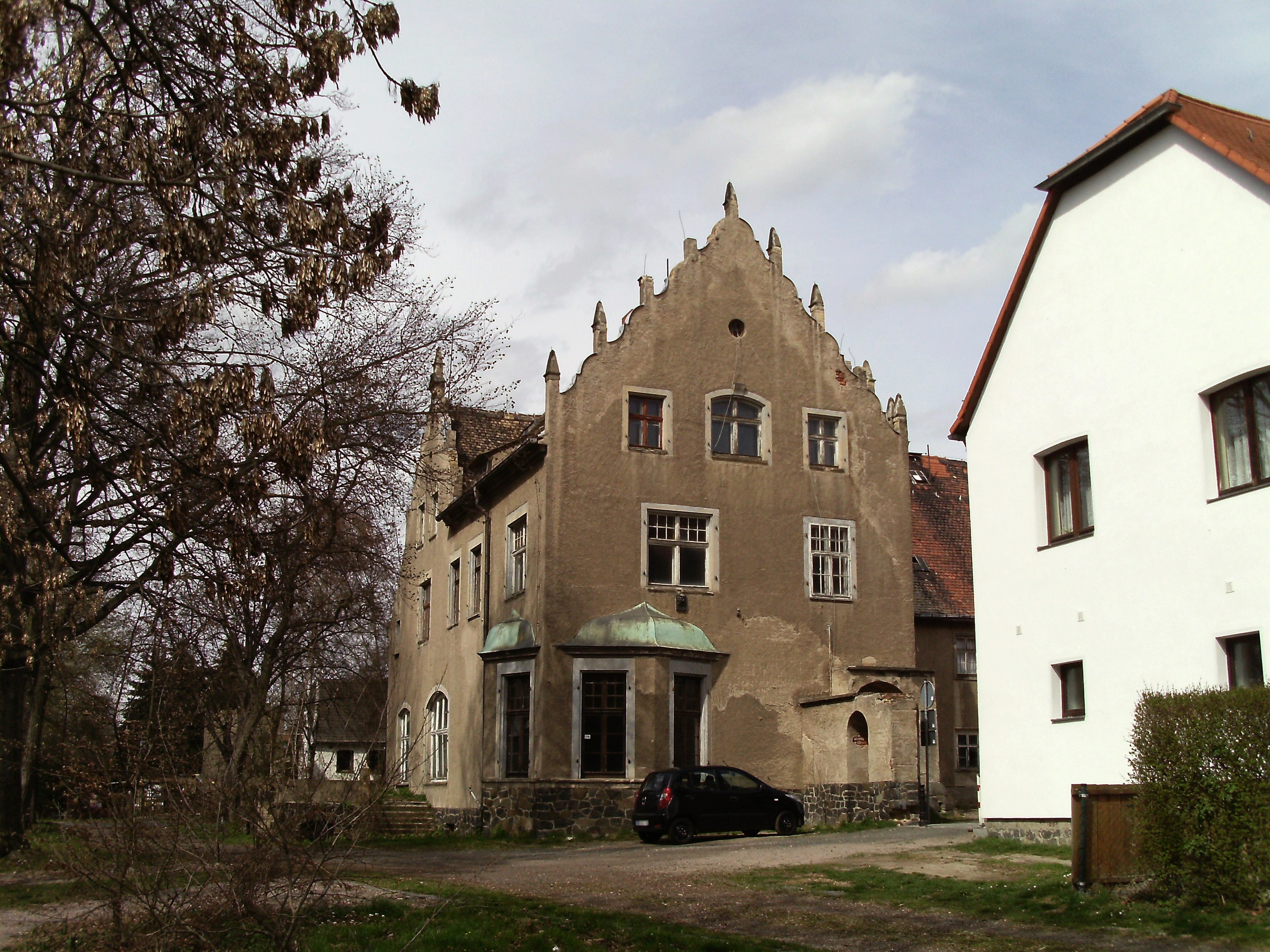 Manor of Merkwitz estate (Taucha, Nordsachsen district, Saxony)